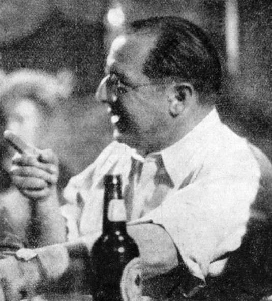 Film director Georg Wilhelm Pabst and actor Albert Préjean (Mackie Messer) while shooting the film L'Opéra de quat'sous (The Threepenny Opera) in 1931